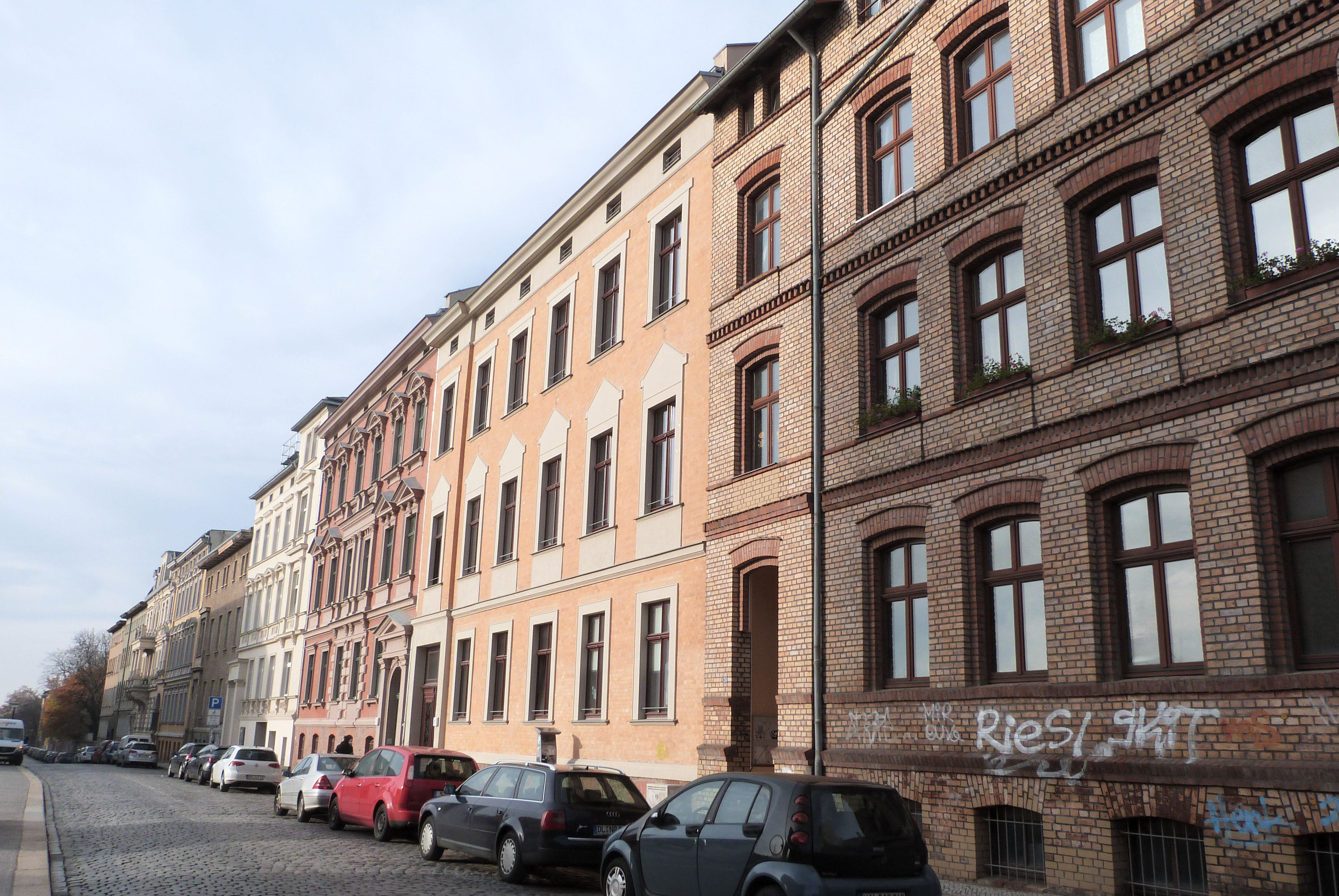 Emil-Abderhalden-Strasse No. 16 - 24 in Halle (Saale), view to west